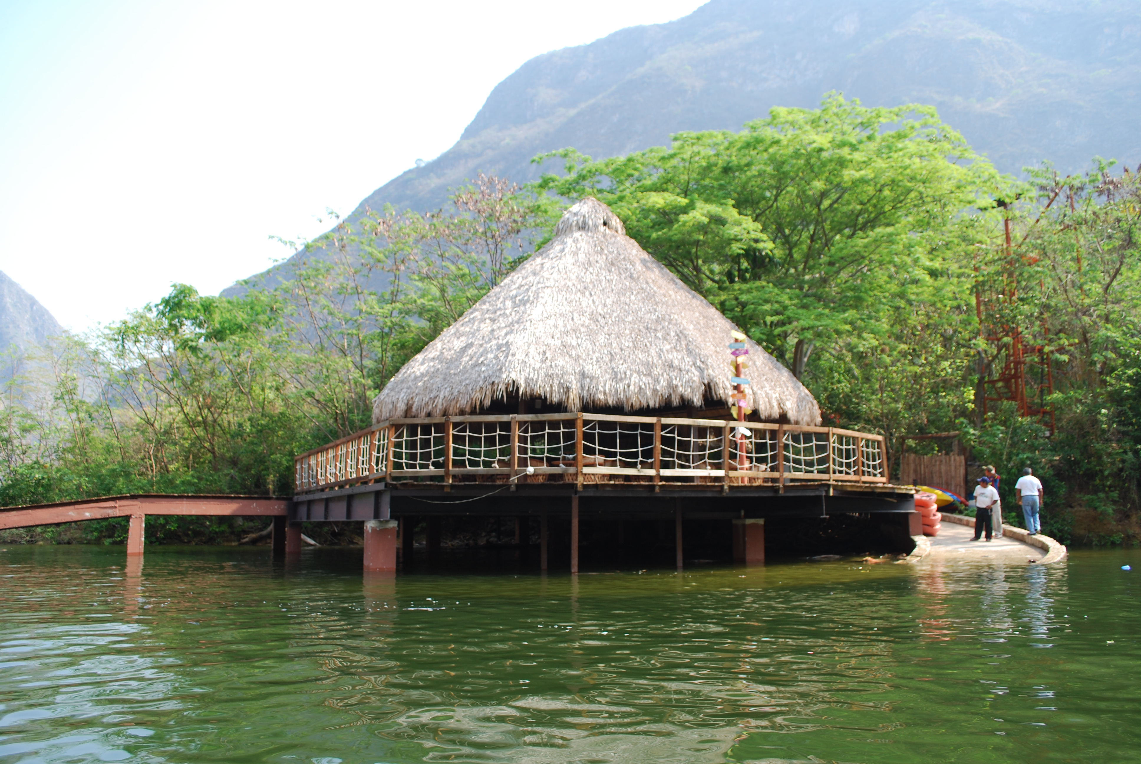 Hut and docks to an ecotourism area in the Chicoasen Dam Chiapas, Mexico